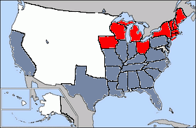 1856 elections in the USA - results by state